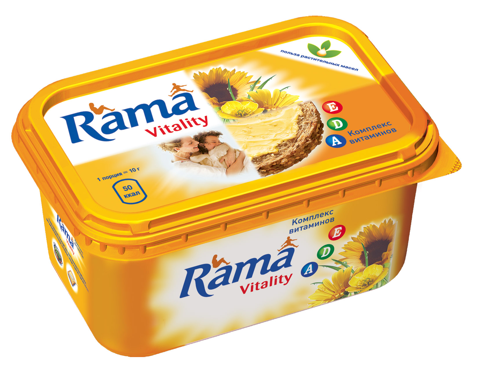 Rama products